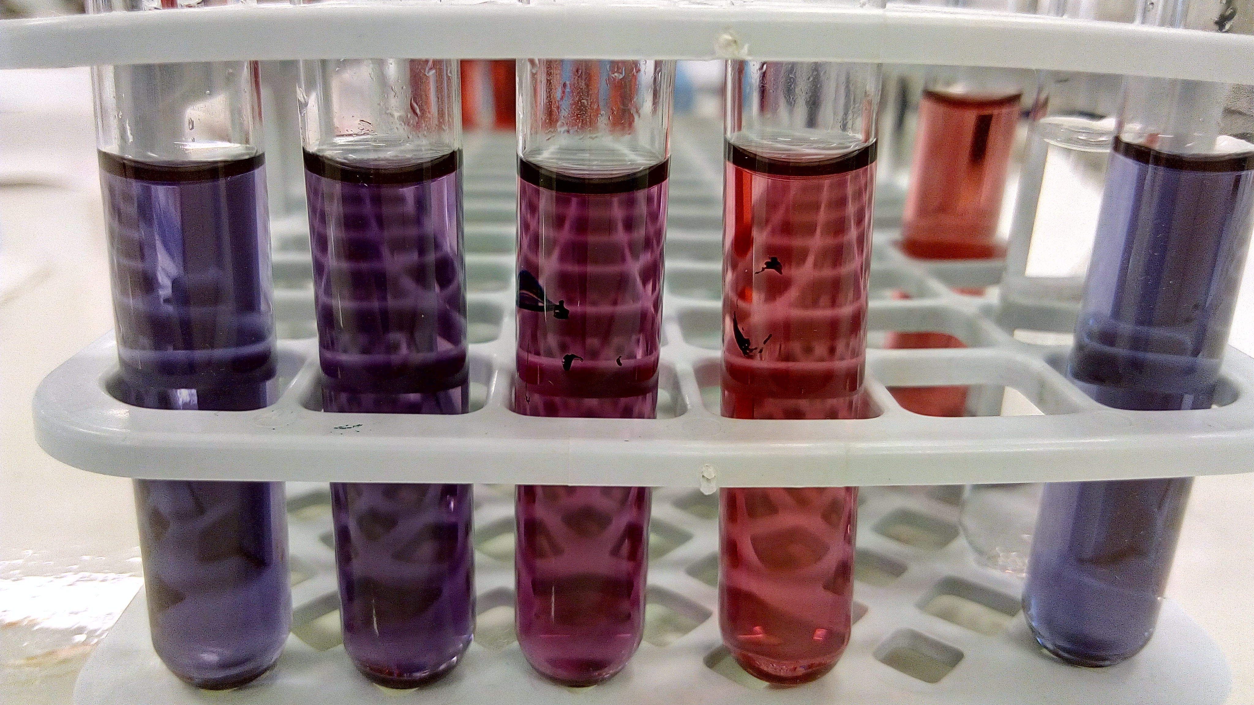 Gold nanoparticle solutions with different amounts of glutathione, showing the colour change resulting from their aggregation